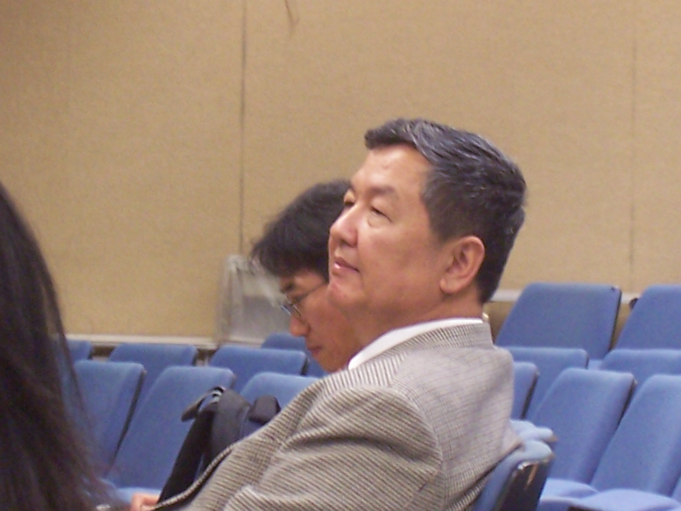 Kuen-Chen Fu, Republic of China 3rd legislative.